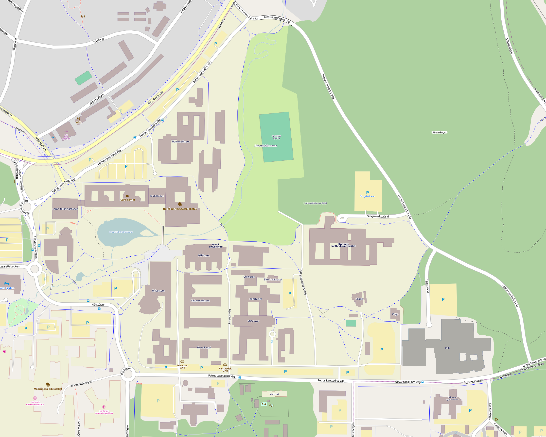 This map of Umeå University was created from OpenStreetMap project data, collected by the community. This map may be incomplete, and may contain errors. Don't rely solely on it for navigation.